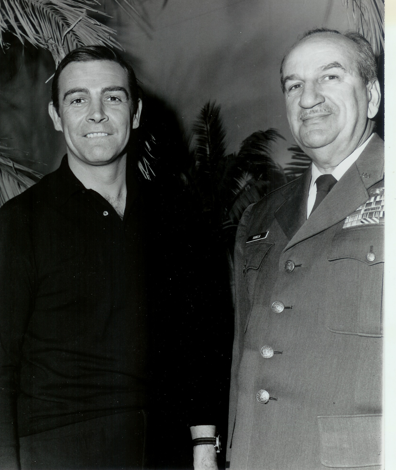 Retired Lt. Col. Charles Russhon, military adviser to the James Bond films in the ‘60s and ‘70s, poses with Sean Connery during the production of “Thunderball.” Russhon took Connery in tow when he arrived in New York, and they remained friends until Russhon passed away in 1982, Russhon’s wife, Claire Russhon, said. (Photo courtesy of Christian Russhon)